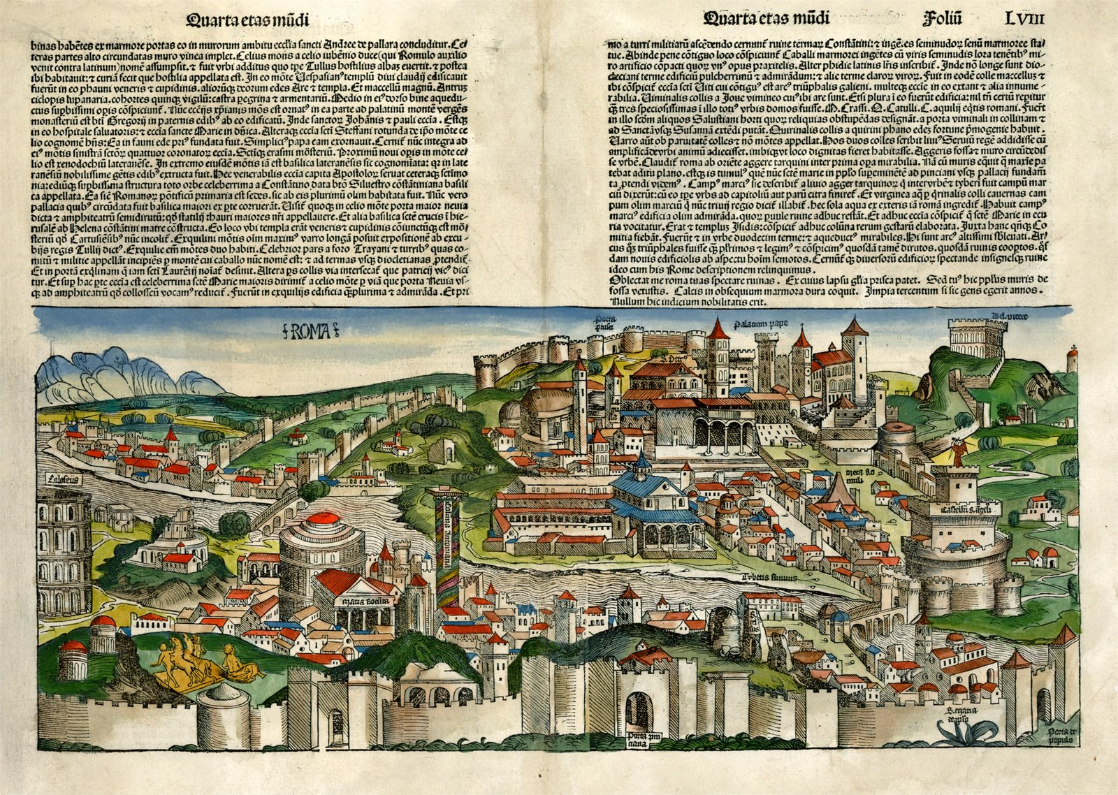 Illustration from the Nuremberg Chronicle